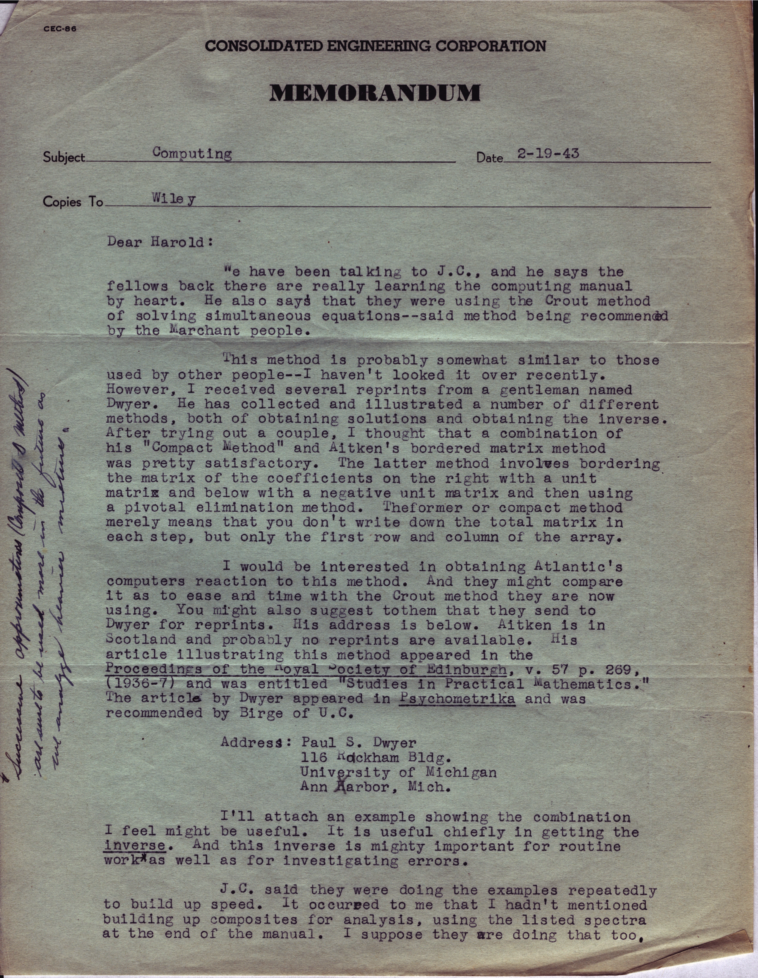 Letter from Sybil M. Rock to Harold Wiley, 1943, Consolidated Engineering Corporation.